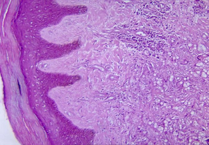 Histopathological changes in lobomycosis skin. This chronic fungal infection is caused by the fungus Loboa loboi, and is characterized by keloidal nodular lesions occurring on the face, ears, or extremities. This disease is usually found in humans and bottle-nosed dolphins. Source: CDC PHIL image database, public domain.